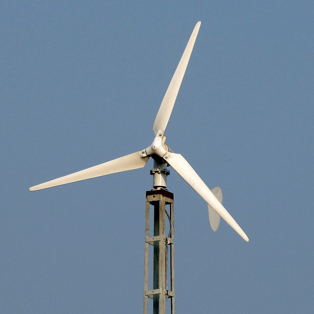 Micro Windmill 1 KiloWatt installed in suburbs of Lahore city of Pakistan